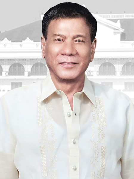 Portrait of the President Rodrigo R. Duterte